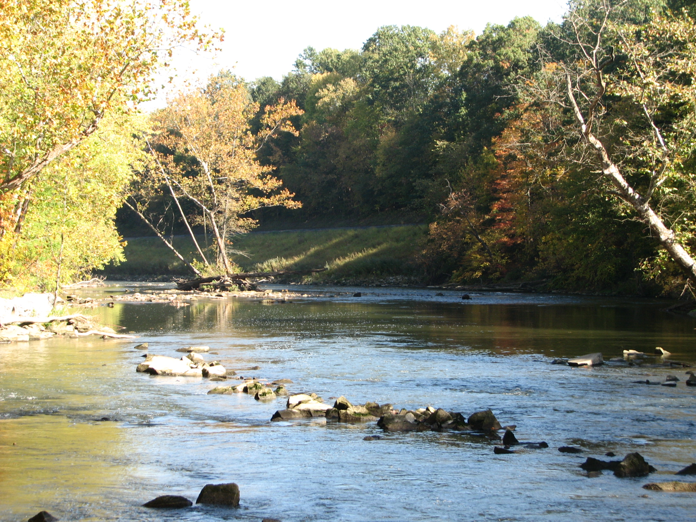 A photo of the Cuyahoga River as viewed from a portion of the Ohio and Erie Canal Towpath Trail in the city of Peninsula, Ohio at Cuyahoga Valley National Park.